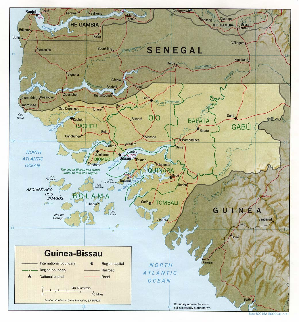 Shaded relief map of Guinea-Bissau.